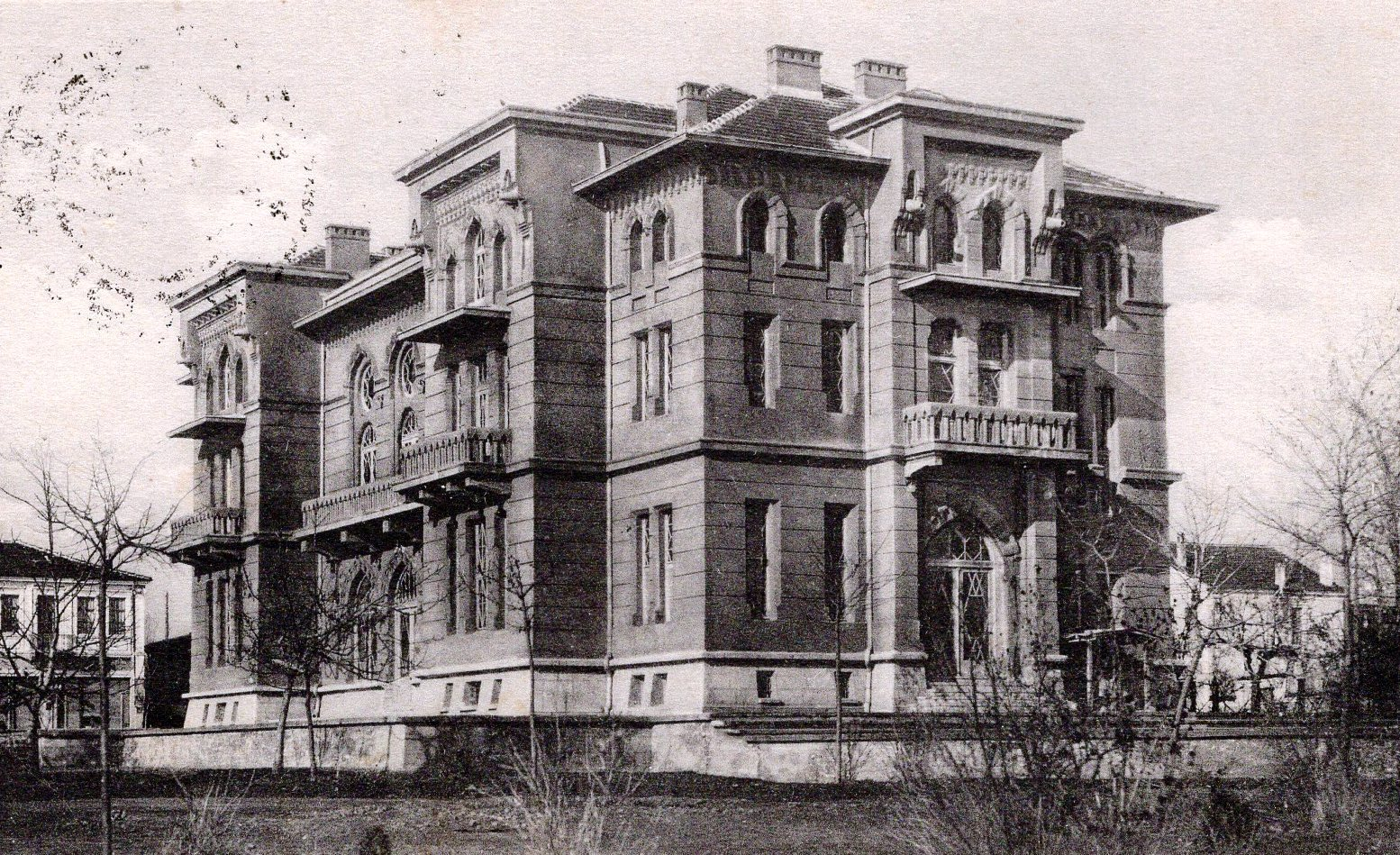 Postcard of Bitola, Officer's Hall, 1930's This media file is produced by Wikipedian in Residence in Category:Wikipedian in Residence at DARM in 2016.